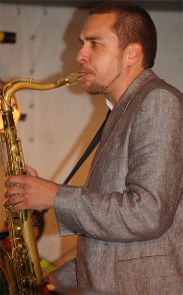 Timo Lassy in Flow Festival in Helsinki